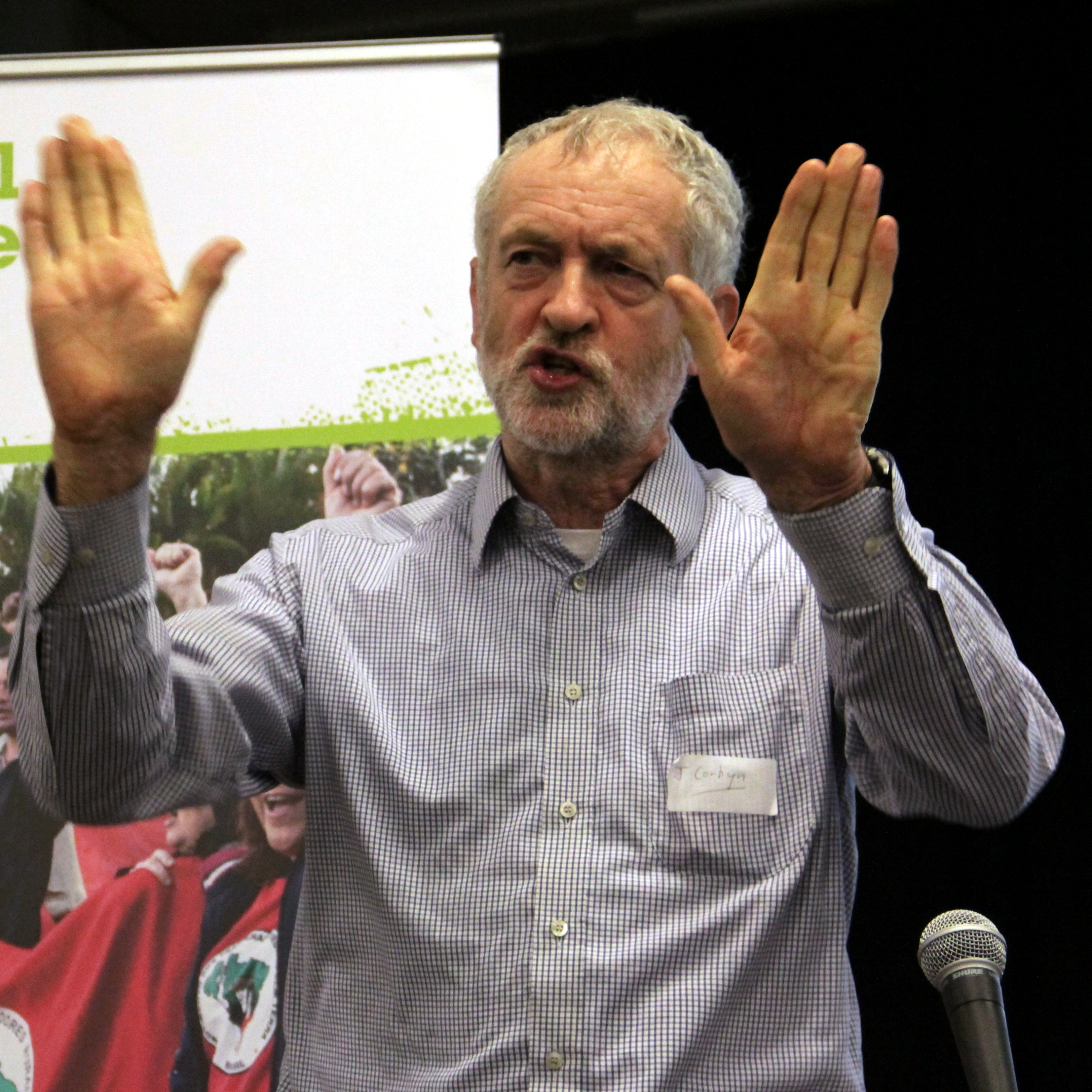 Jeremy Corbyn - Take Back Our World! - Global Justice Now. Cropped. Levels adjusted.